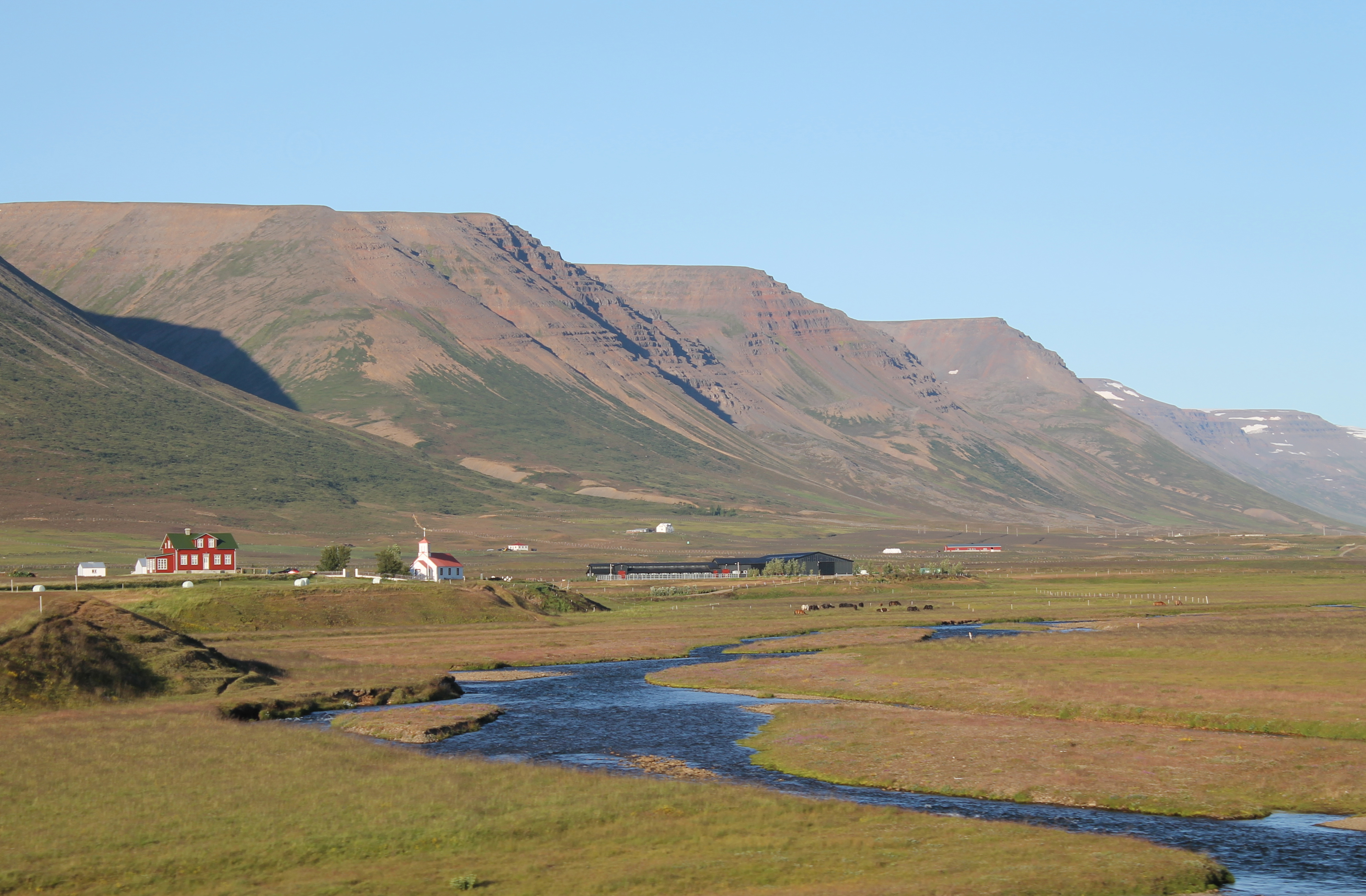 The farmstead and church at Hof on Höfðaströnd, Skagafjör'ður, Northern Iceland.